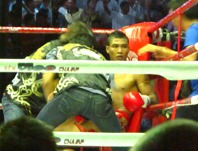 F-16 Rachanon at Lumpini Stadium